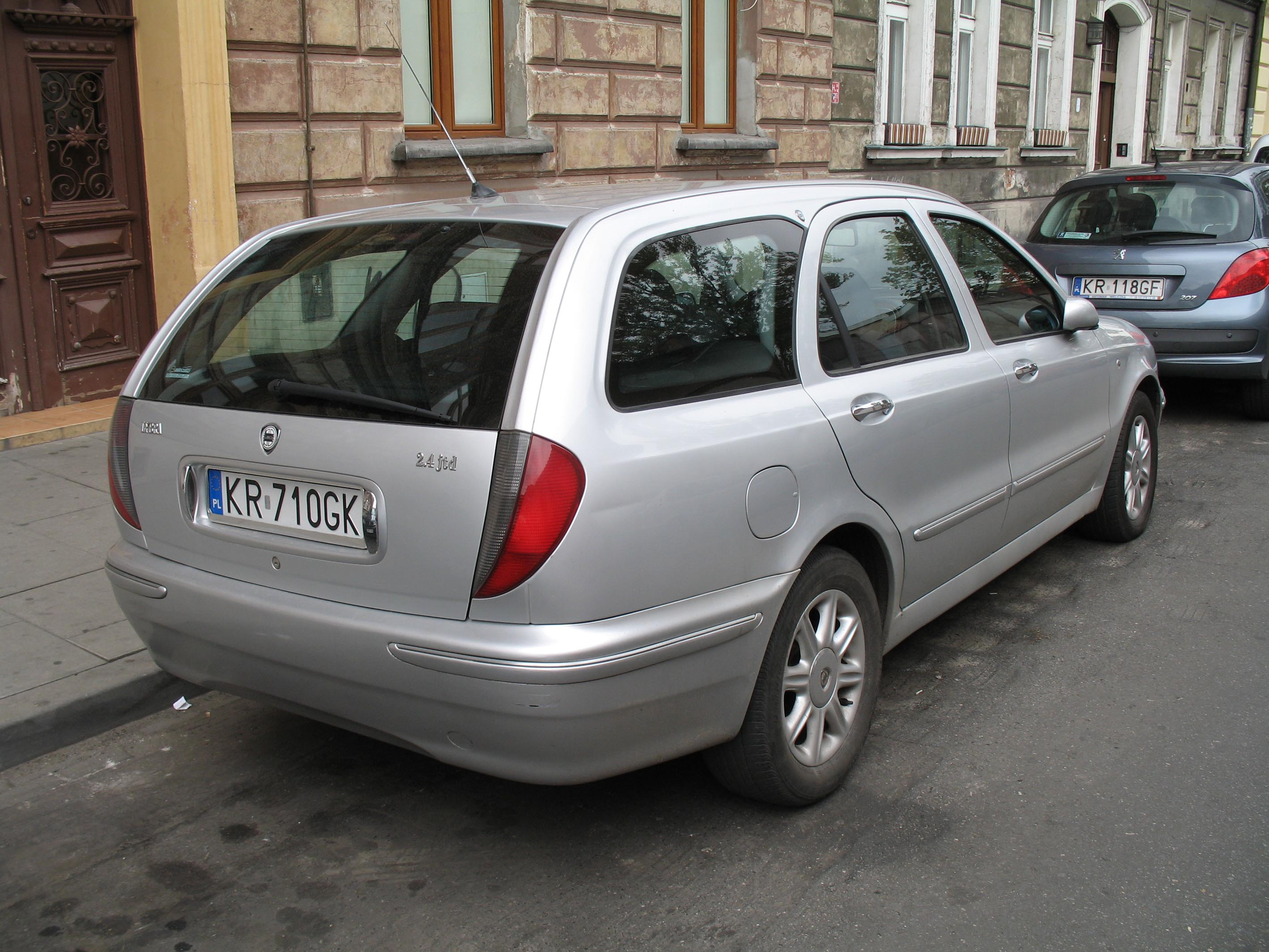 Lancia Lybra Station Wagon 2.4 jtd car in Kraków, Poland.